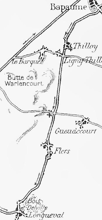 Diagram of the Butte de Warlencourt and roads in the vicinity (Interweb seach failed to identify draughtsman)